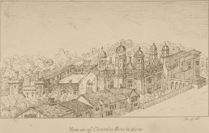 Suffolk House in Southwark, Surrey, town house of Charles Brandon, 1st Duke of Suffolk, 1st Viscount Lisle (c. 1484-1545). Believed to have been situated on the west side of Borough High Street, the main thoroughfare from London Bridge and the City of London to Canterbury and Dover, as taken by the pilgrims in Chaucer's Pilgrim's Progress. Original of this drawing by Anton van den Wyngaerde (1525-1571), Sutherland Collection, Bodleian Library, Oxford. A bird's-eye panorama of the whole area was also drawn by Wyngaerde, see[1]